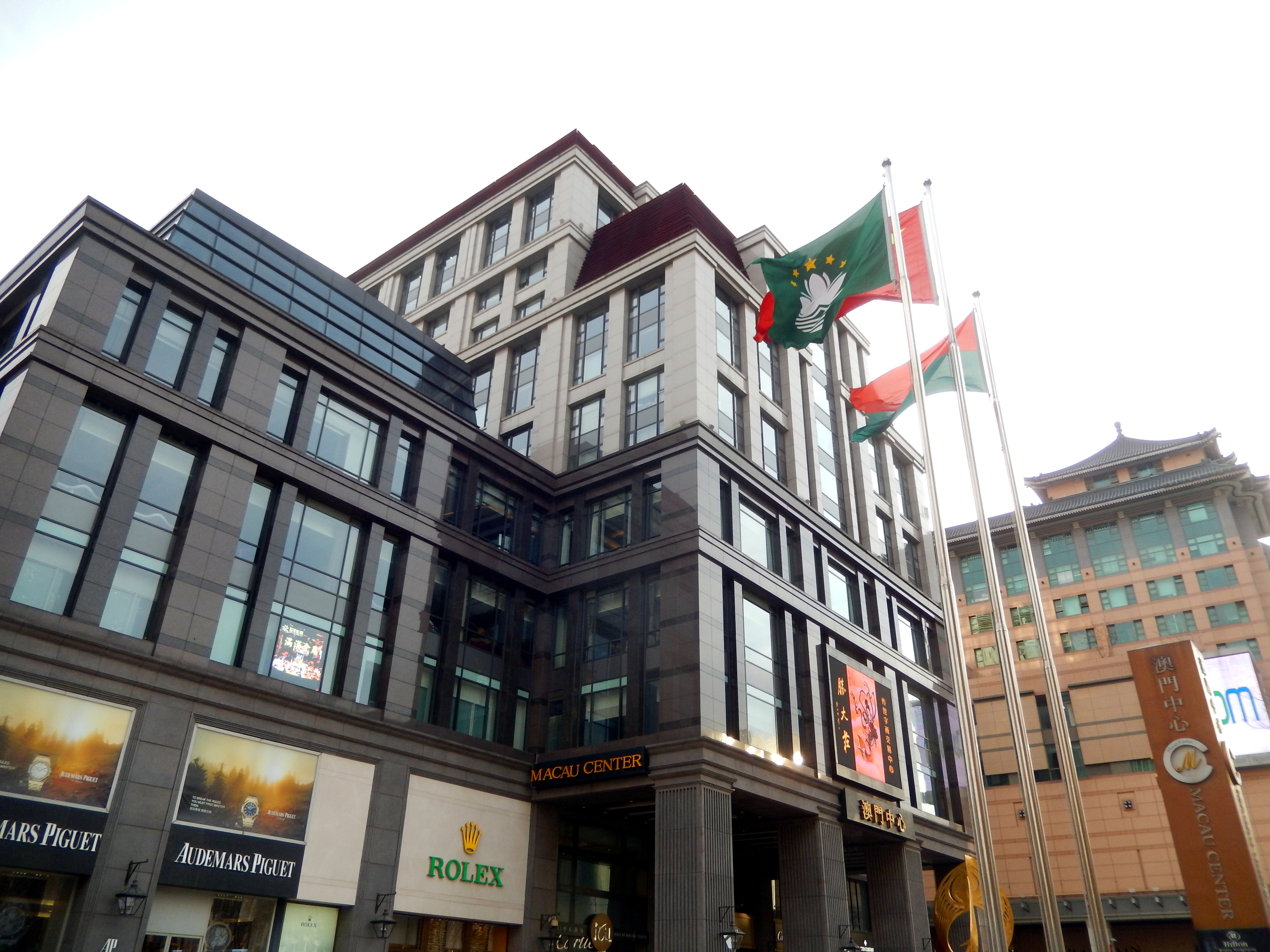 Macau Center in Wangfujing, Beijing